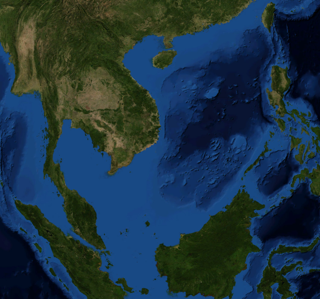 Satellite Picture of the South China Sea